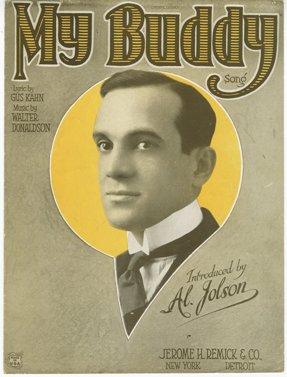 "My Buddy" sheet music cover, with picture of singer Al Jolson